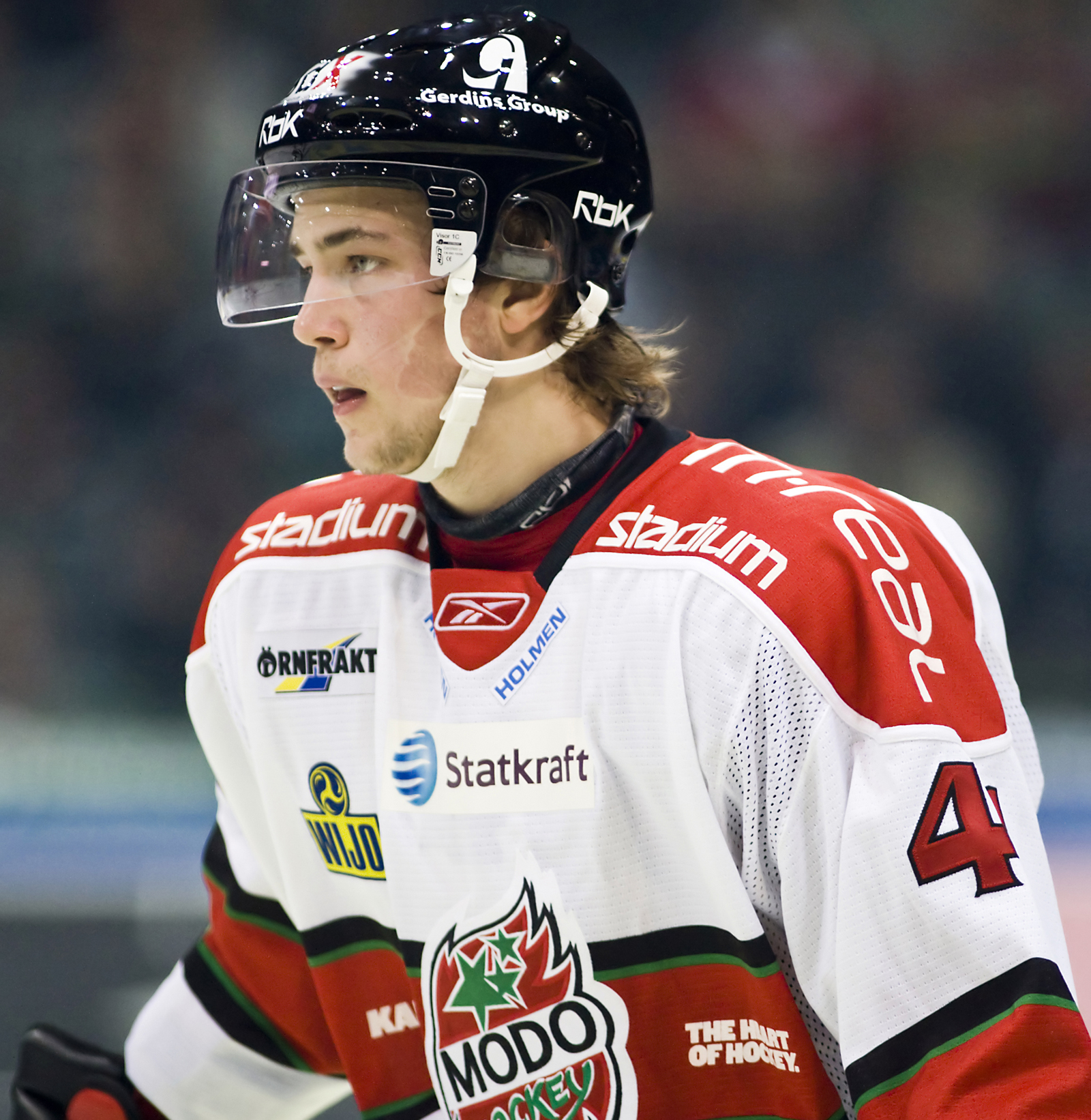 Victor Hedman of MODO Hockey during a game against Frölunda HC in Scandinavium, Gothenburg, on September 25, 2008.